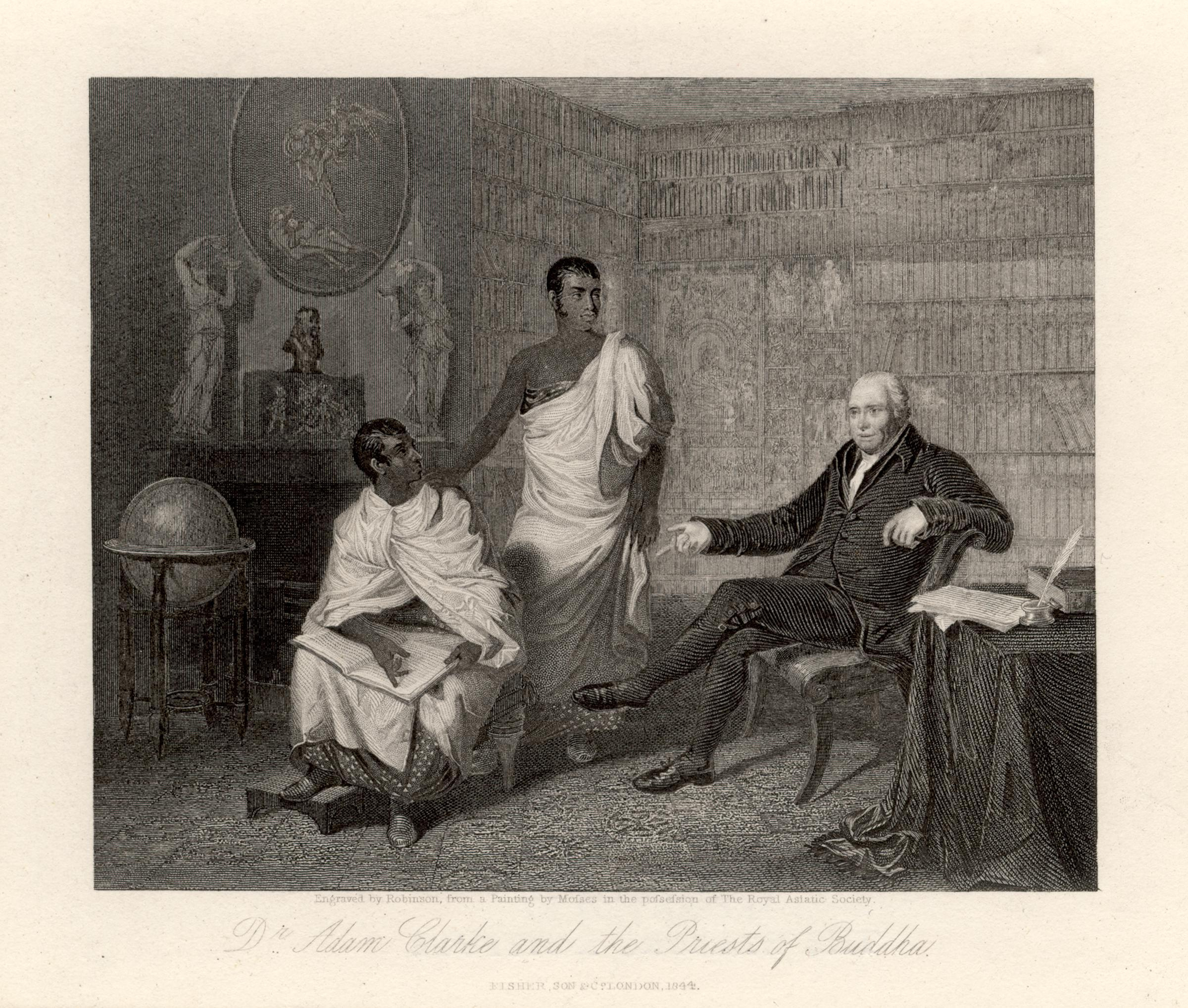 Dr Adam Clarke and the Priests of Buddha probably by John Henry Robinson, published by Fisher Son & Co, after Alexander Mosses; line and stipple engraving, published 1844 (exhibited 1820). Adam Clarke (1760 or 1762–1832) was a British Methodist theologian and Biblical scholar. He is chiefly remembered for writing a commentary on the Bible which took him 40 years to complete. According to the NPG's website the work was published prior to 1859, and so the author is reasonably presumed dead by 1939.